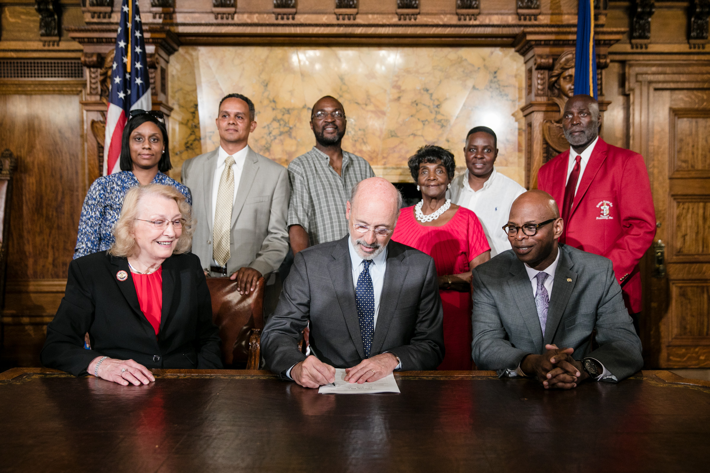 Governor Wolf Declares “Juneteenth National Freedom Day” in Pennsylvania